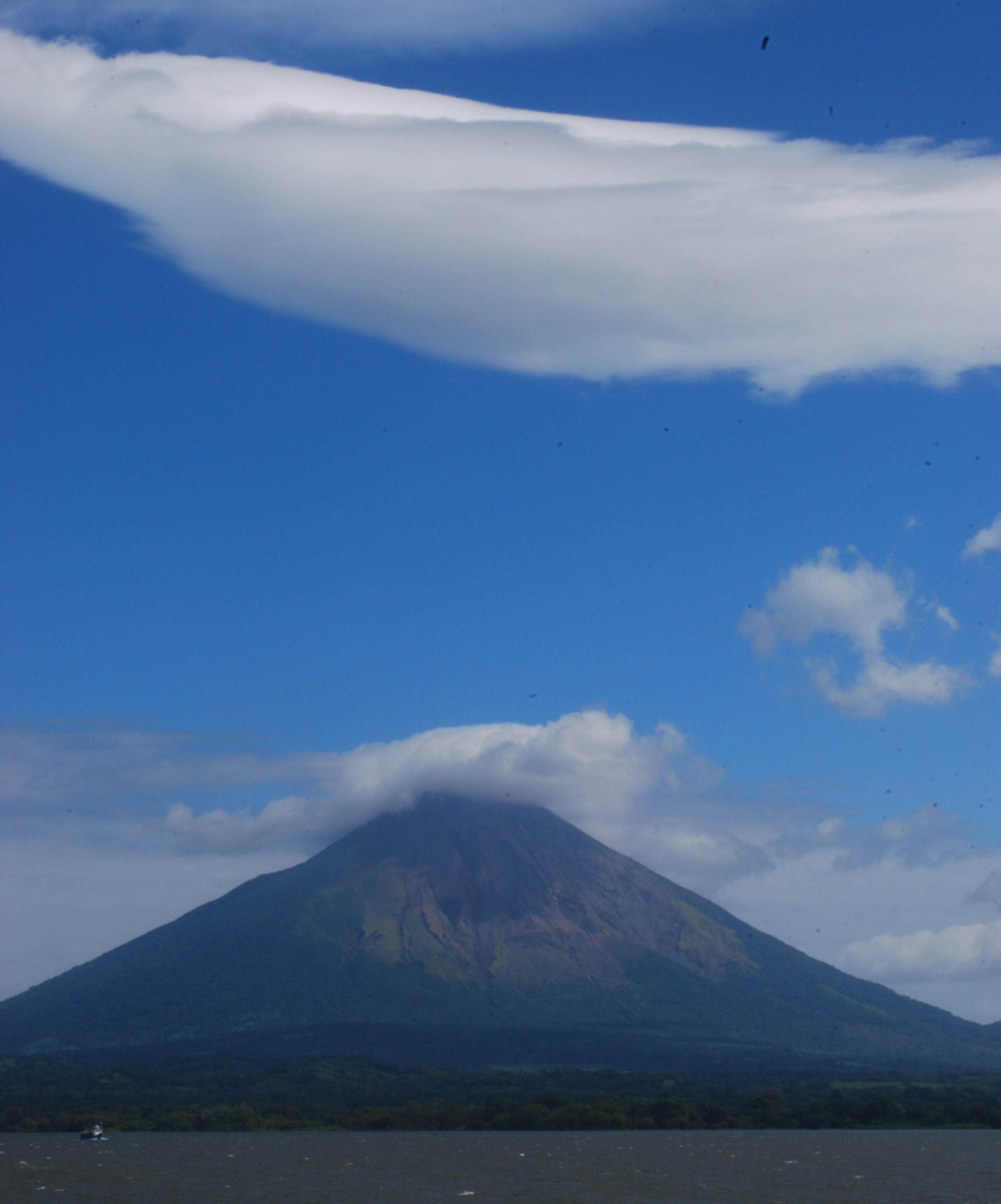 The volcano Concepción seen from Lake Cocibolca